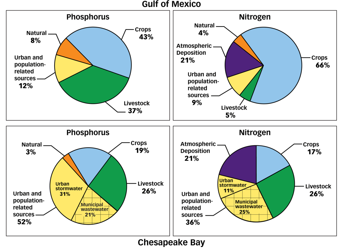 Graphs showing sources of nutrient pollution in the Gulf of Mexico and the Chesapeake Bay.